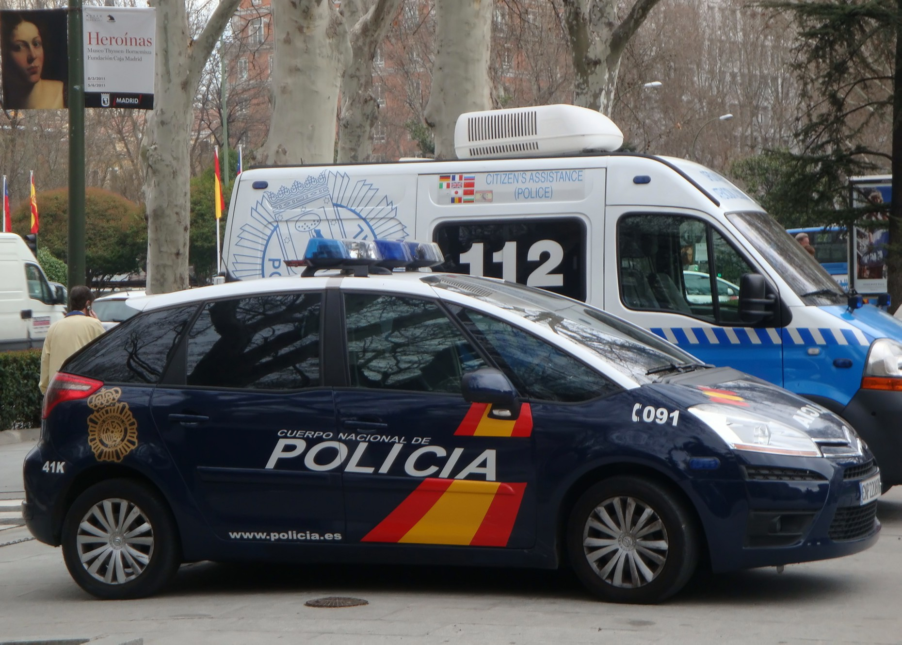 Spanish police car